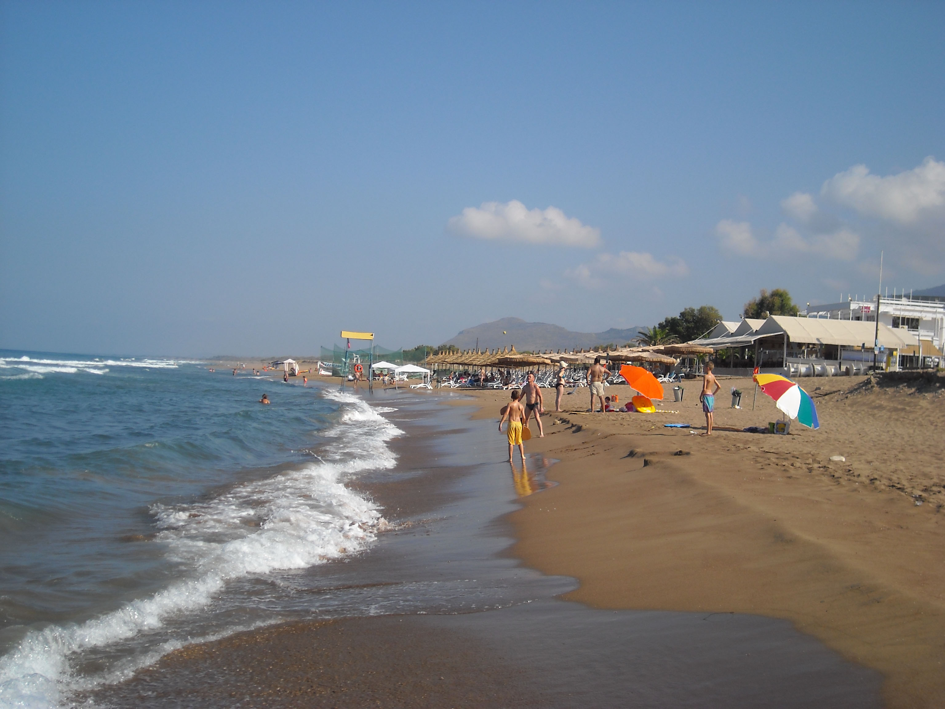 Zacharo Beach and Para thin alos bar restaurant facilities